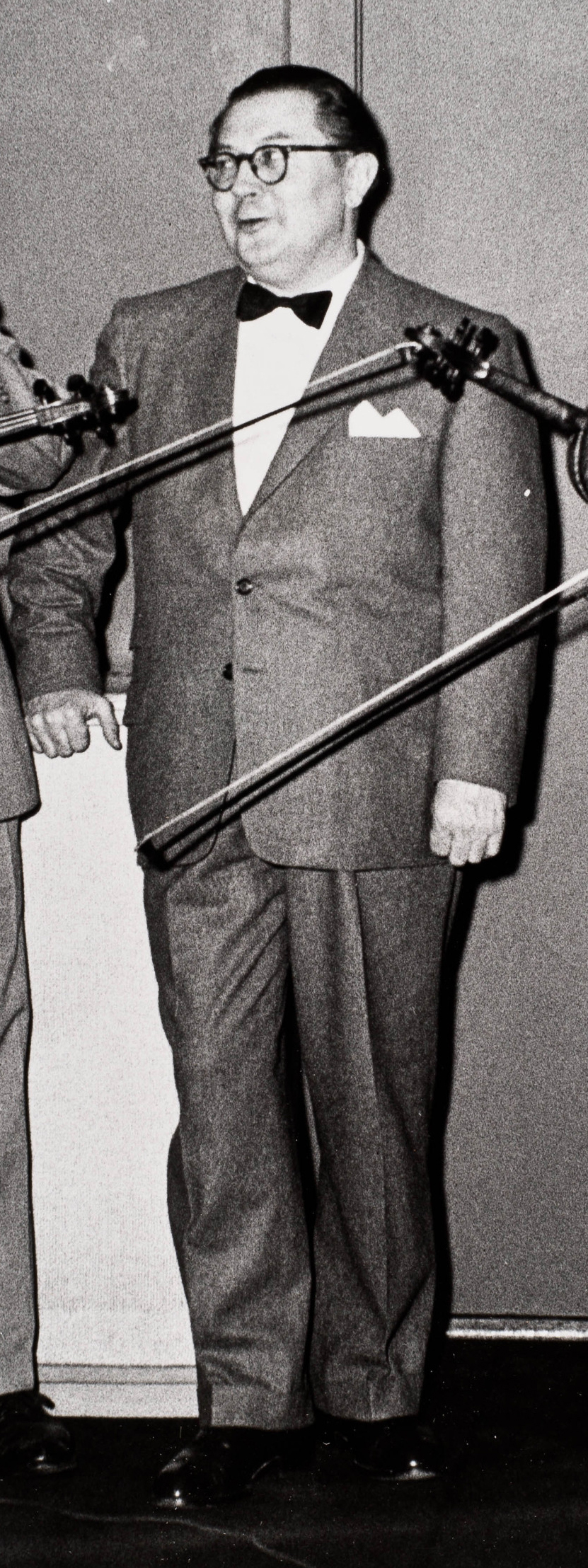 New York, April 29, 1954: World premiere of Richard Mohaupt's Concerto for Violin and Orchestra; Michael Rabin, violin; New York Philharmonic; Dimitri Mitropoulos, conductor (copyright: New York Philharmonic Leon Levy Digital Archives, photographer Paul Duckworth)